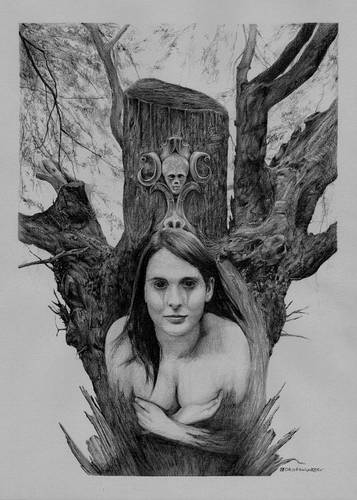 Drawing, size: A3